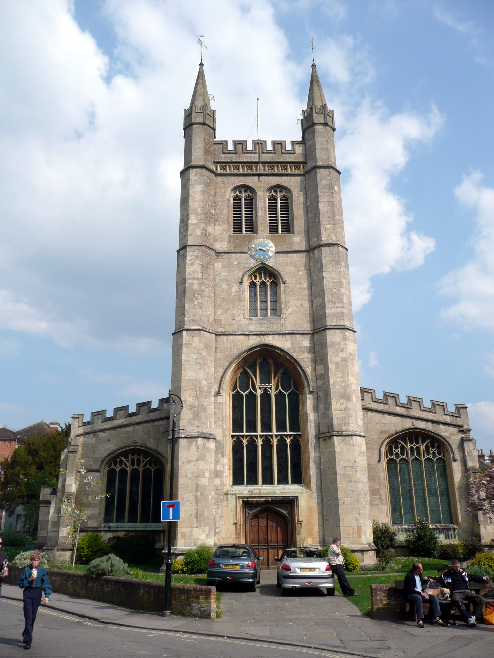 The west fromt of St Nicholas' parish church, Bartholomew Street, Newbury, built 1509–32